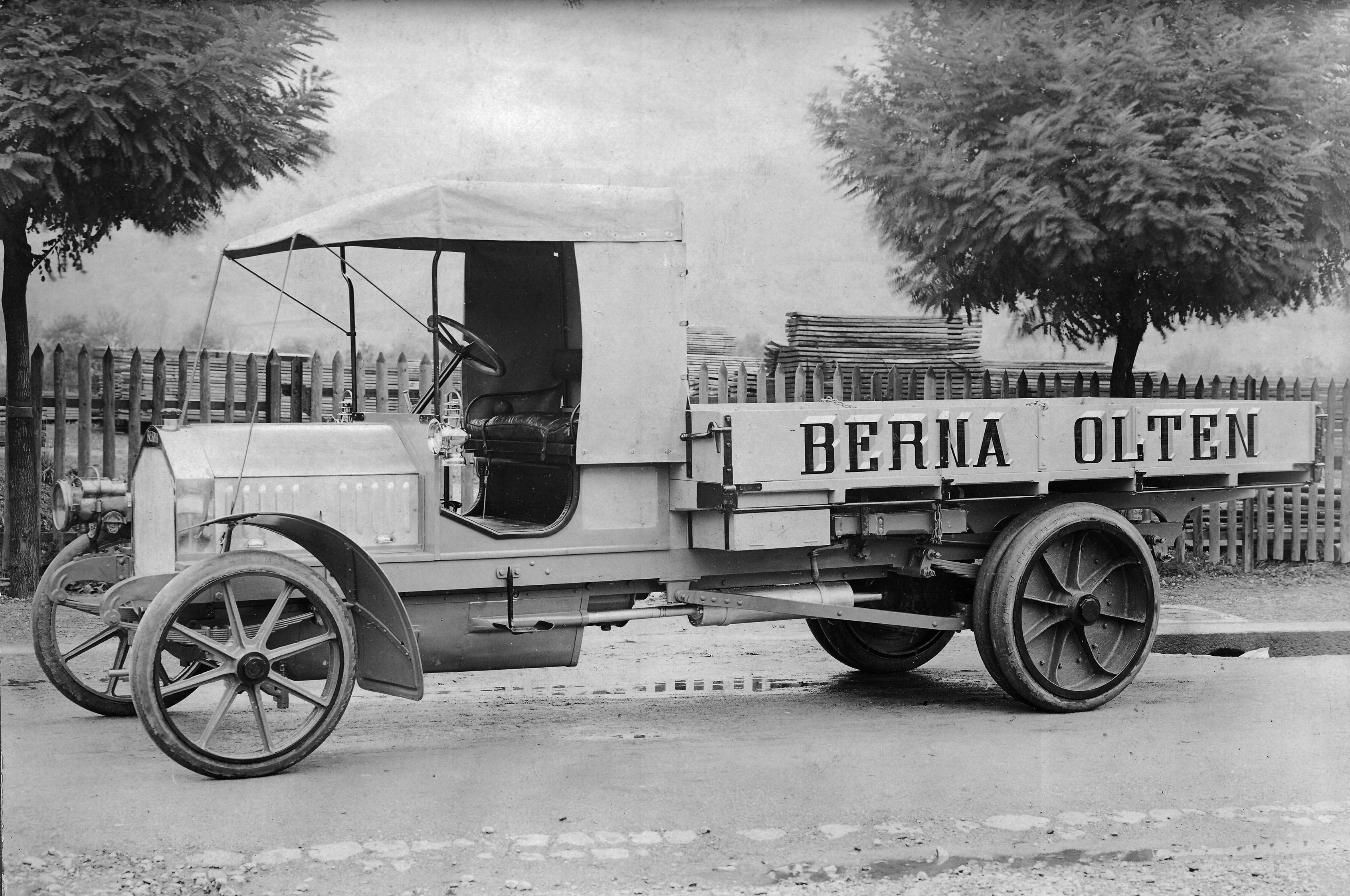 in Sammlung Historisches Museum Olten